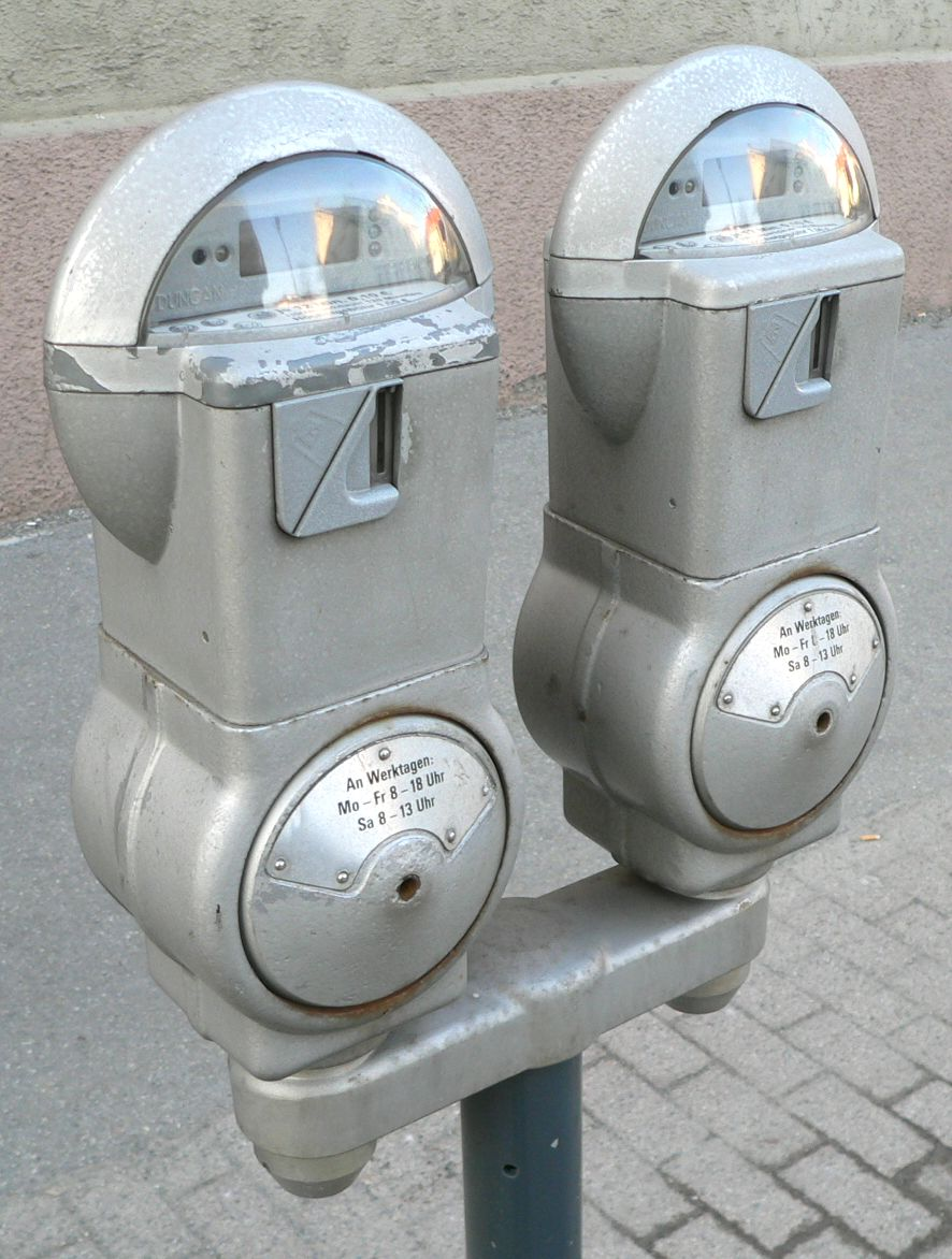 Description: Biberach, Germany, parking meter Date: 2006-04-08 photographer: JuergenG Wikipedia account